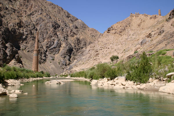 The Minaret of Jam and Qasr Zarafshan, by the Hari Rud (river)